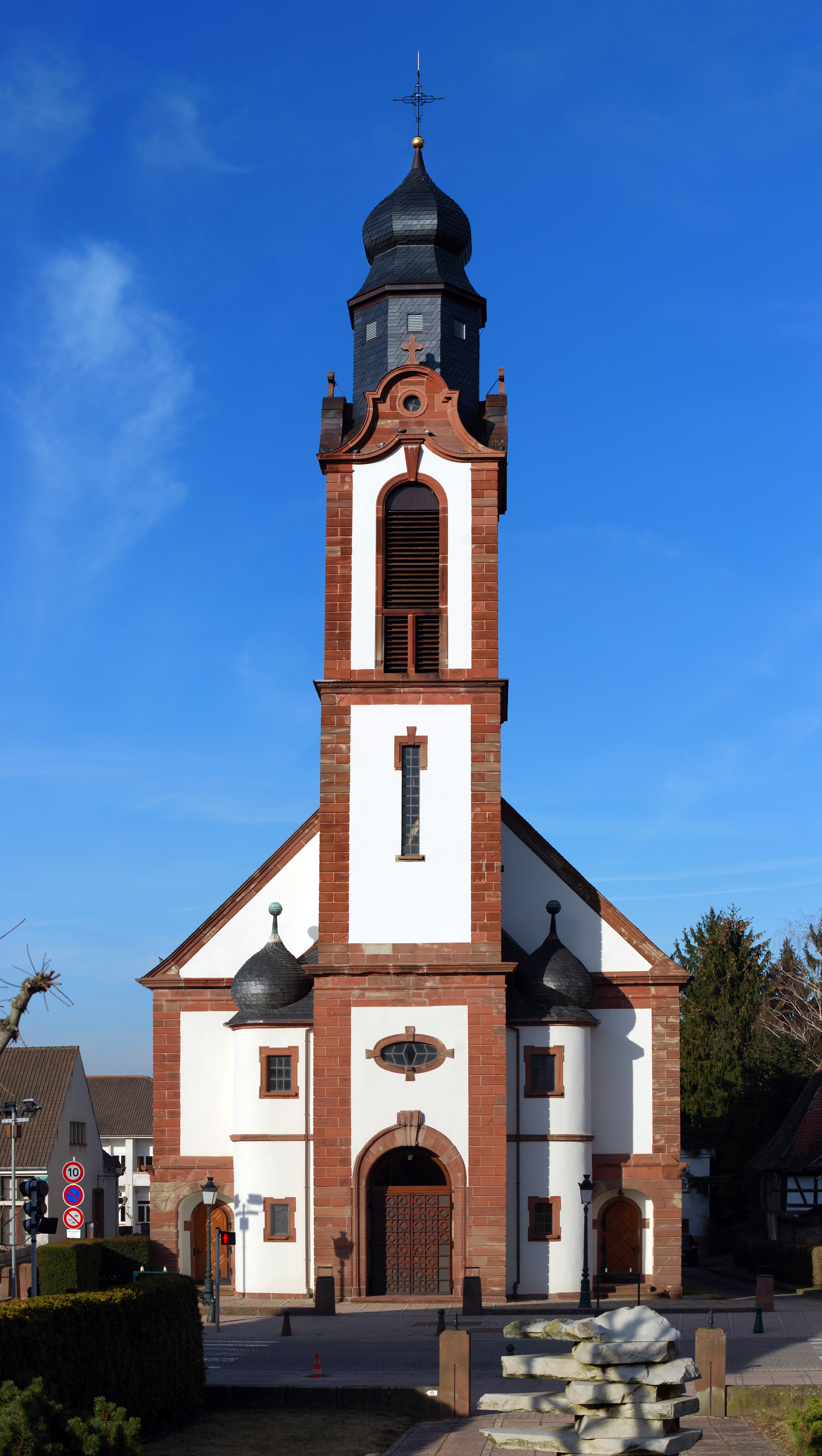 The Catholic church of Soultz-sous-Forêts, Alsace.